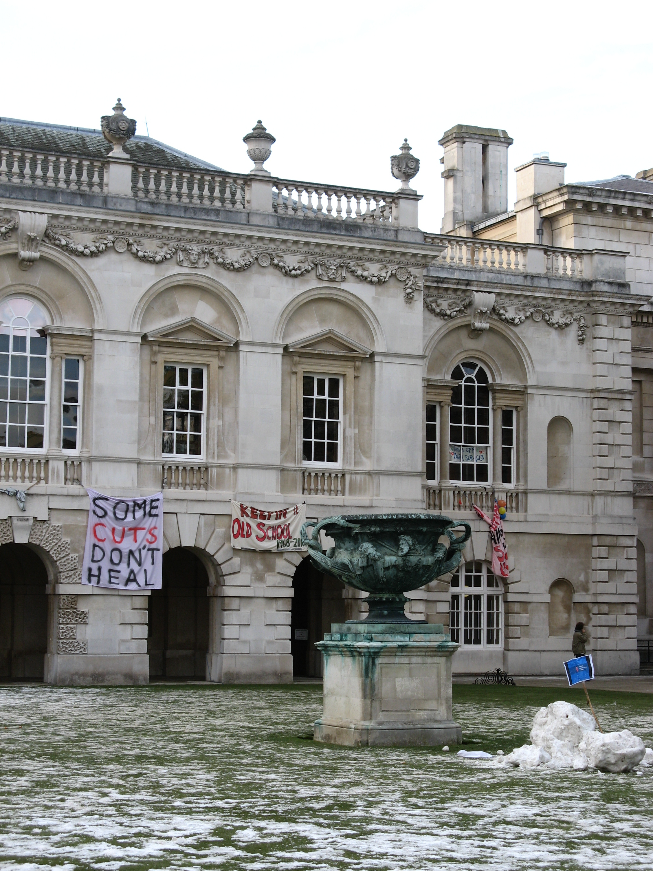 Cambridge University, Old Schools Combination Room, during the 2010 student occupation.